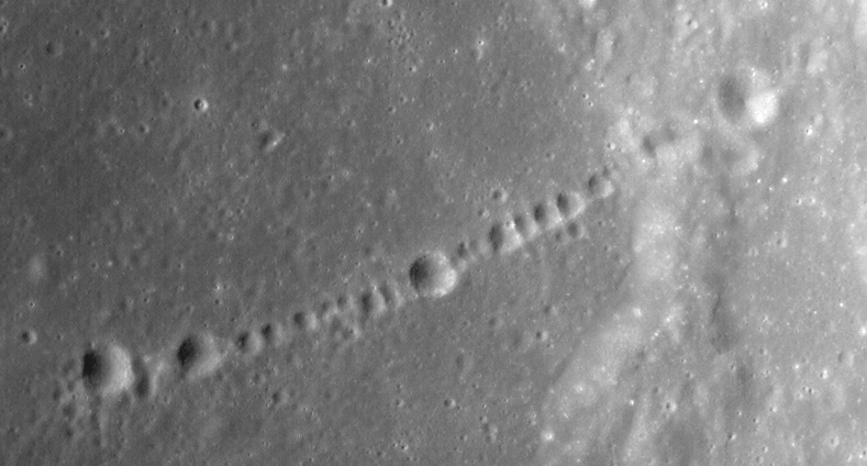 Catena Davy — crater chain on the Moon, on the edge of Mare Nubium near crater Davy. Image by Lunar Reconnaissance Orbiter (LROC Wide Angle Camera, frame M119896473ME; cropped and with increased brightness).